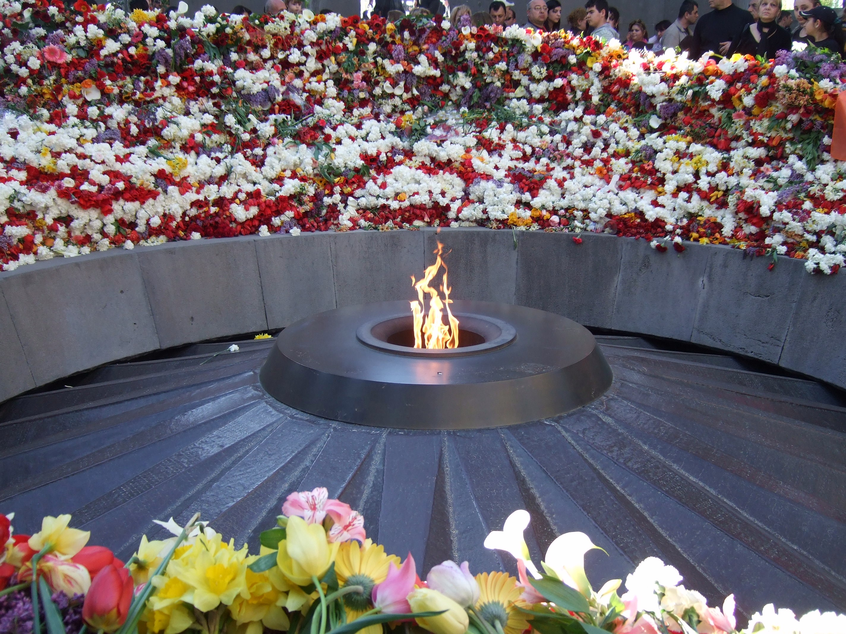 The Eternal Flame at Tsitsernakaberd on April 24th, 2011, the 96th anniversary of the Armenian Genocide.